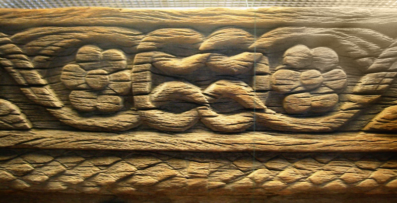 Carved wooden beam from Loulan, Tarim Basin, 3-4th century CE. "The carving is derived from leaf and flower patterns used in the Hellenistic Mediterranean, Syria, Iran and Gandhara" (British Museum notice, 2005)